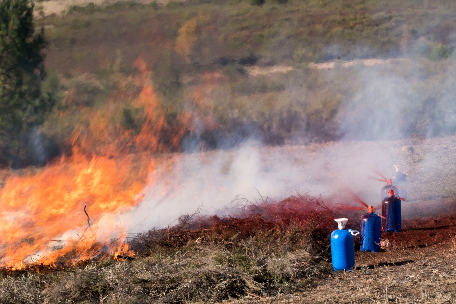 Forest fire extinguisher